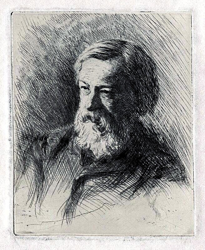 Sir John Charles Robinson. Etching, 4 1/2 in. x 3 5/8 in. (115 mm x 93 mm) plate size; 8 7/8 in. x 6 1/4 in. (225 mm x 158 mm) paper size. © National Portrait Gallery Native nameNational Portrait GalleryLocationLondonCoordinates51° 30′ 33.84″ N, 0° 07′ 41.16″ W Established1856 Web page control : Q238587 VIAF: 121893961 ISNI: 0000 0001 2149 6058 ULAN: 500226159 LCCN: n79113062 Historic England: 1066285 WorldCat institution QS:P195,Q238587